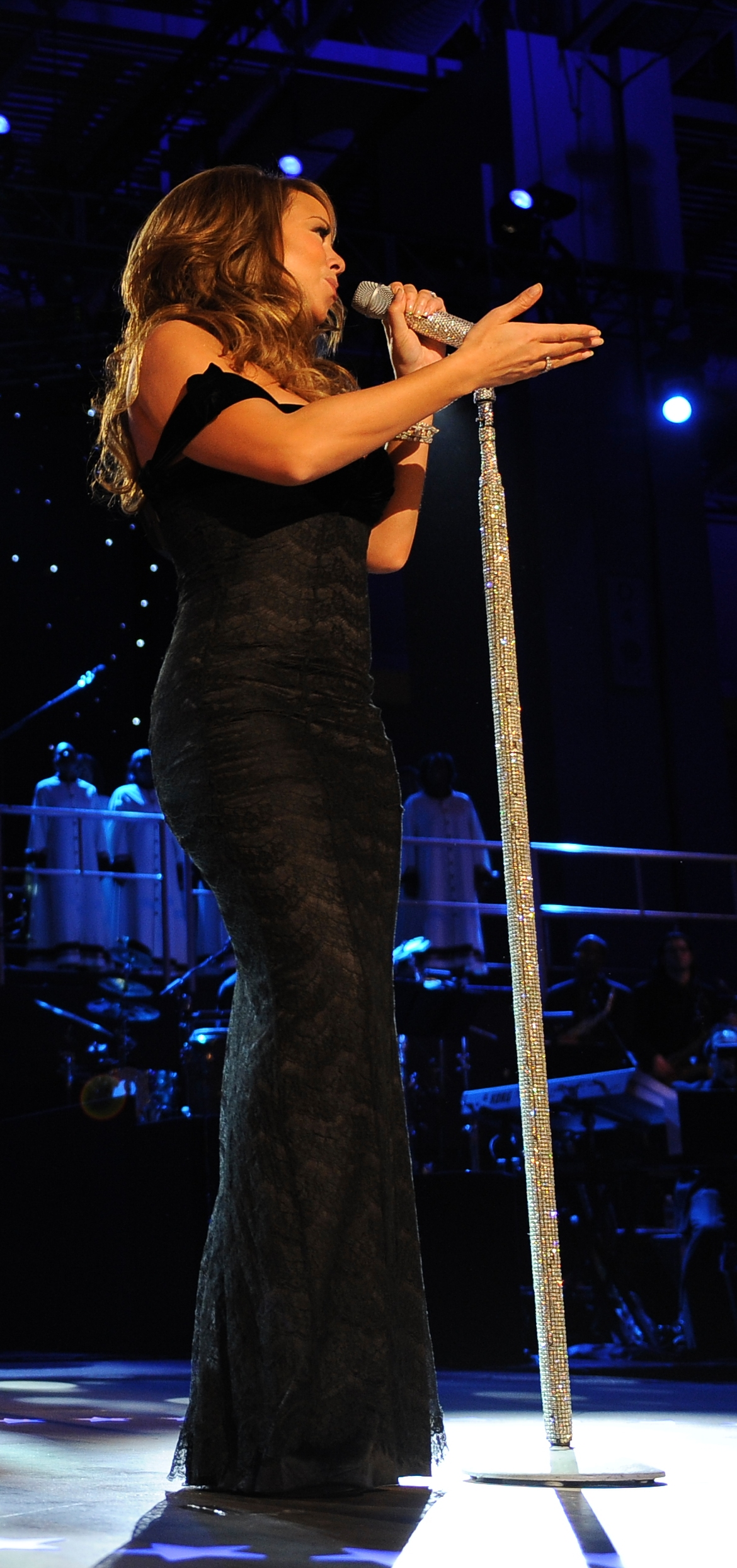 Mariah Carey sings at the Neighborhood Ball in downtown Washington, D.C., Jan. 20, 2009.